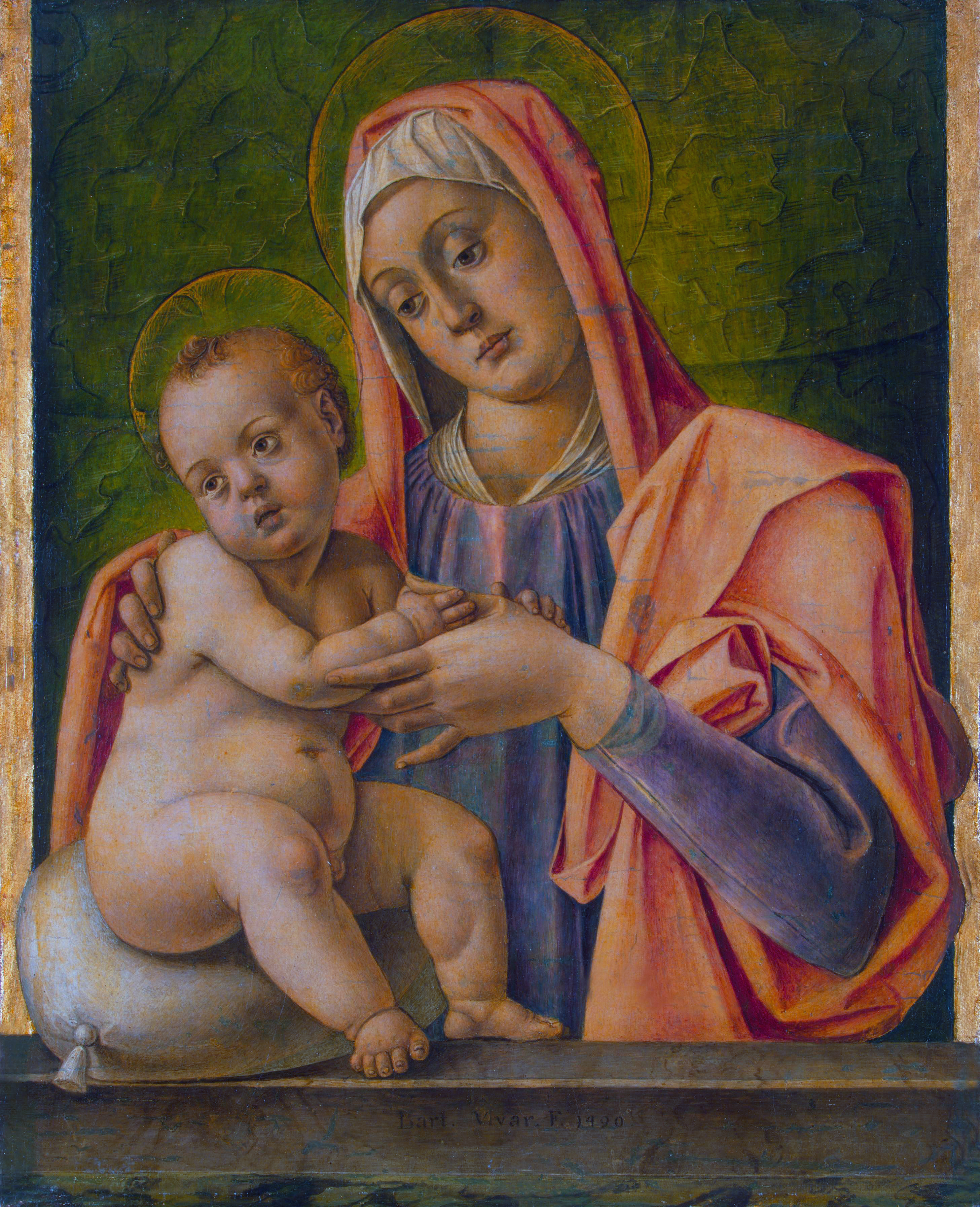 Author: Bartolommeo Vivarini Painting, Tempera and oil on canvas, 57.5x46.5 cm Origin: Italy, 1490